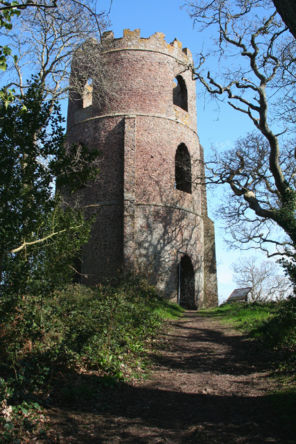 Dunster: Conygar Tower Built by Henry Fownes Luttrell of Dunster Castle in 1775 as a folly. Dunster Deer Park was established at the same time. The tower now belongs to the Crown Estate